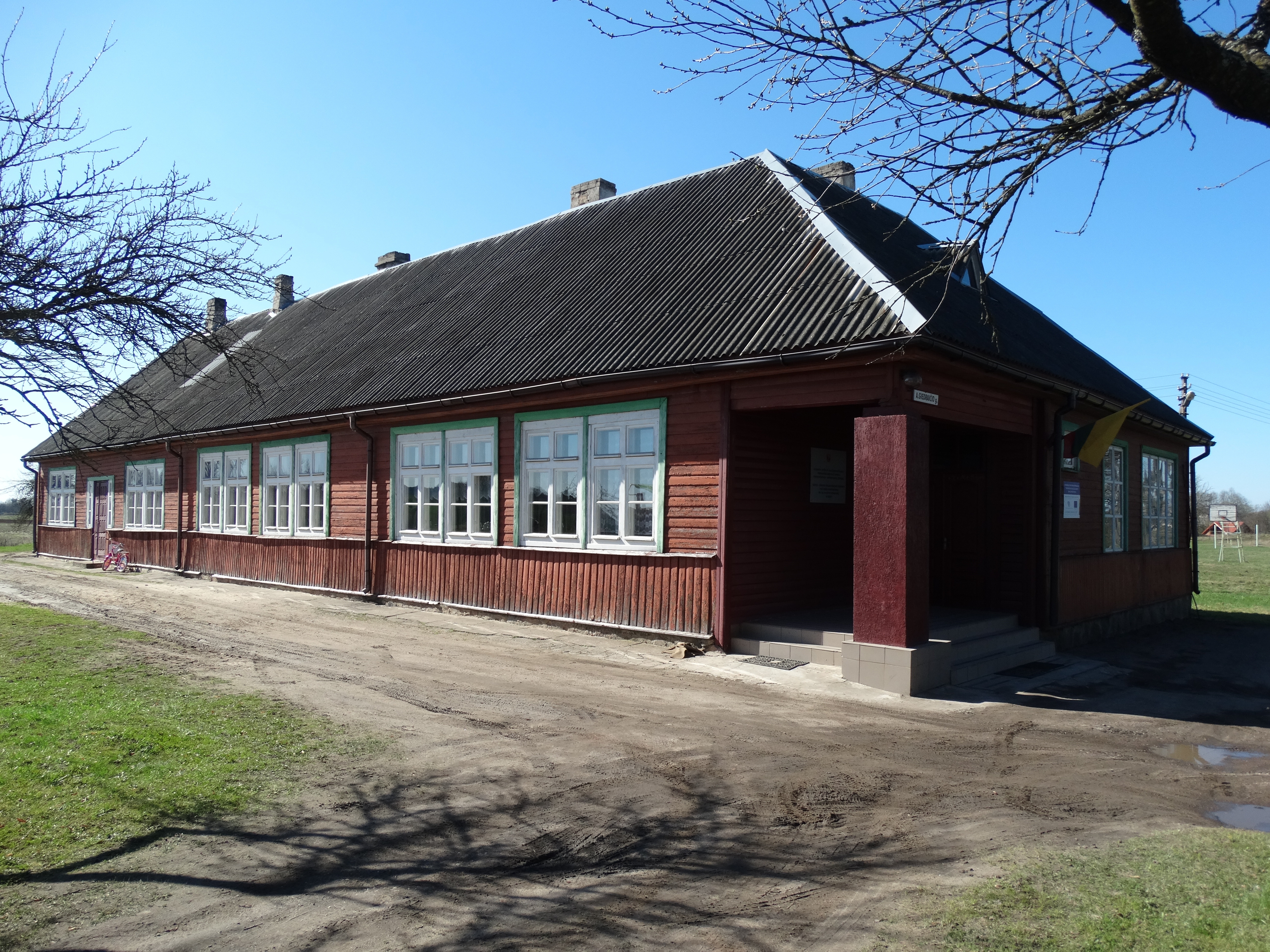 School–multifunction centre, Karvys, Vilnius district, Lithuania